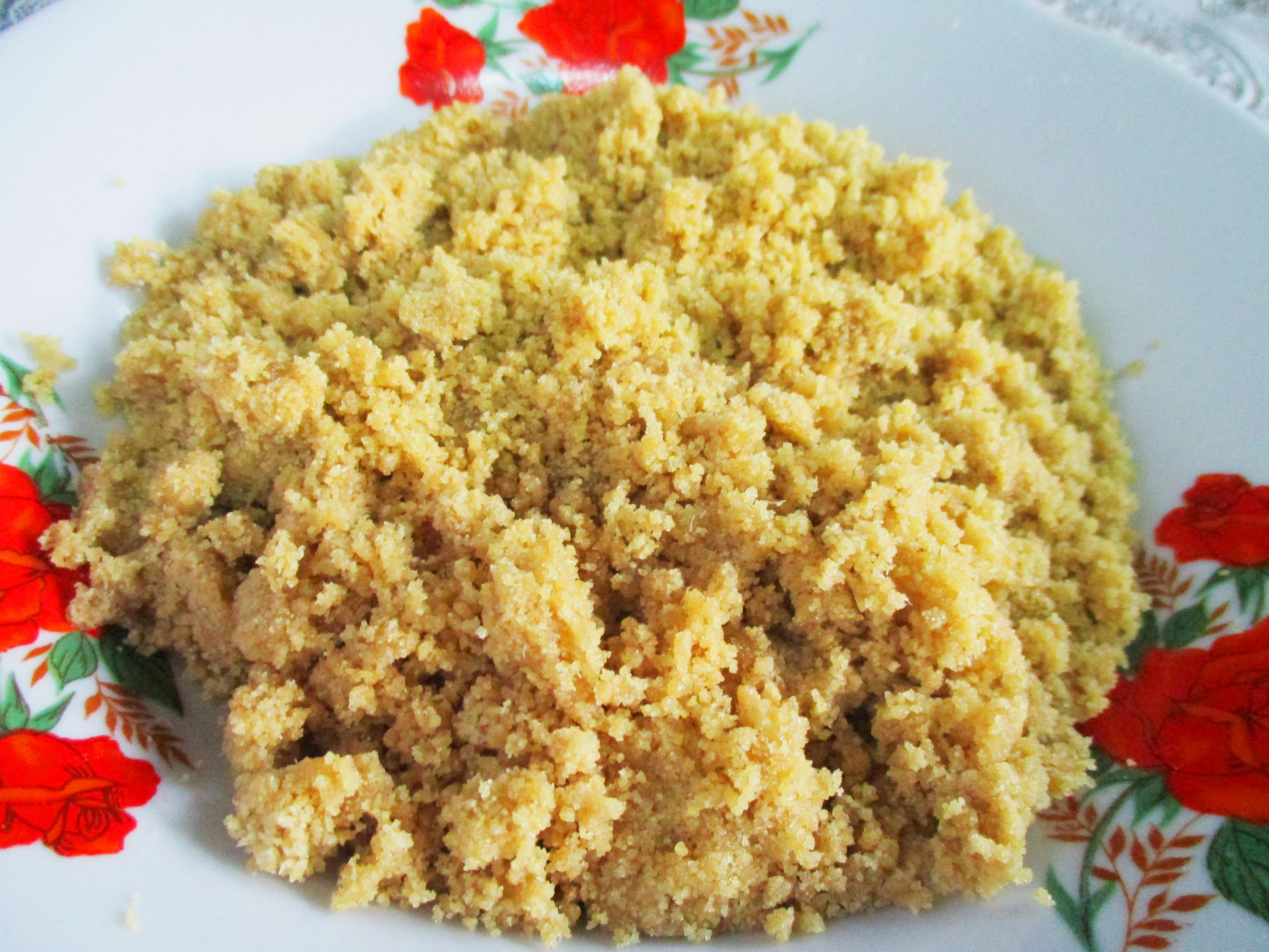 Thiwul is food from cassava. We can see this food in several place in Central Java and Special Region of Yogyakarta.